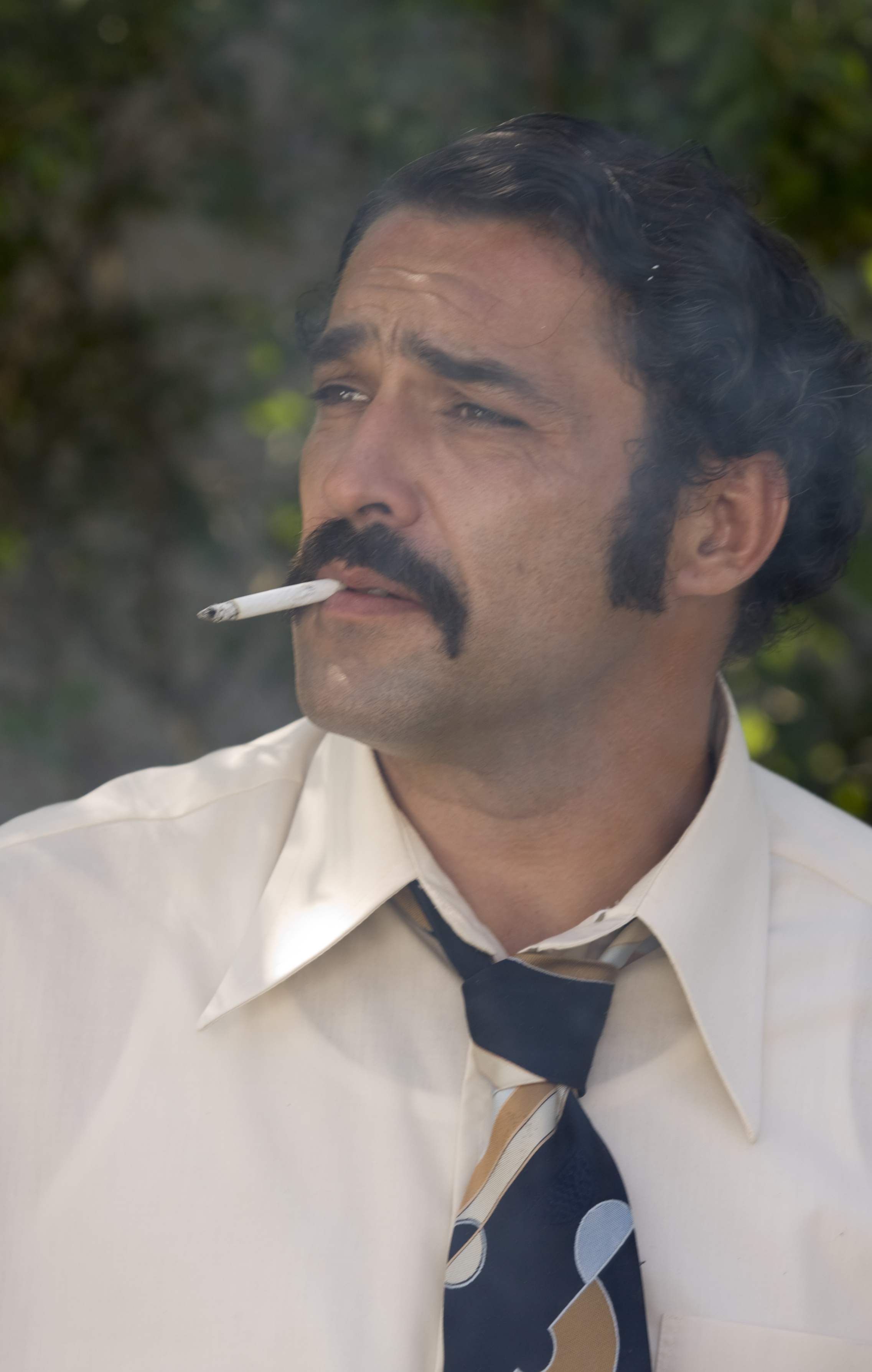 Jean-Pierre Martins sur le tournage du film Gamines, d'Eleonore Faucher.